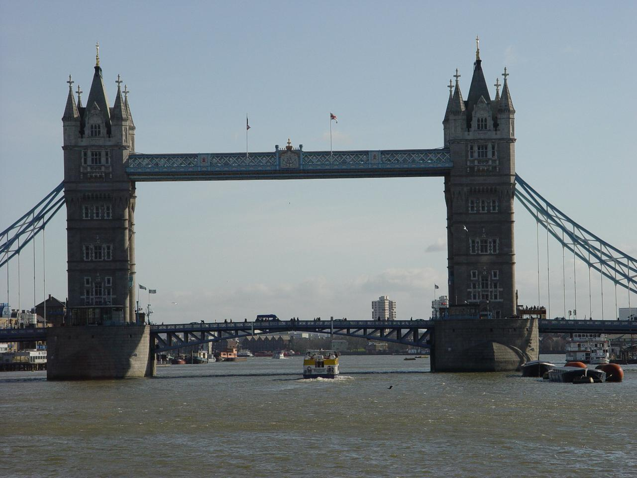 London bridge